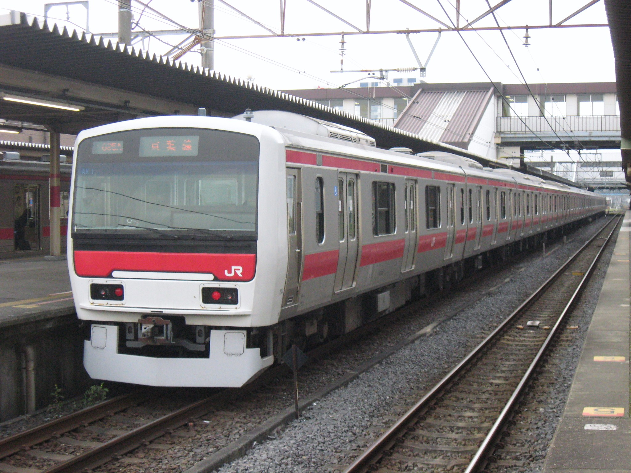 JR East E331 series set AK1 at Soga Station on a Keiyo Line service